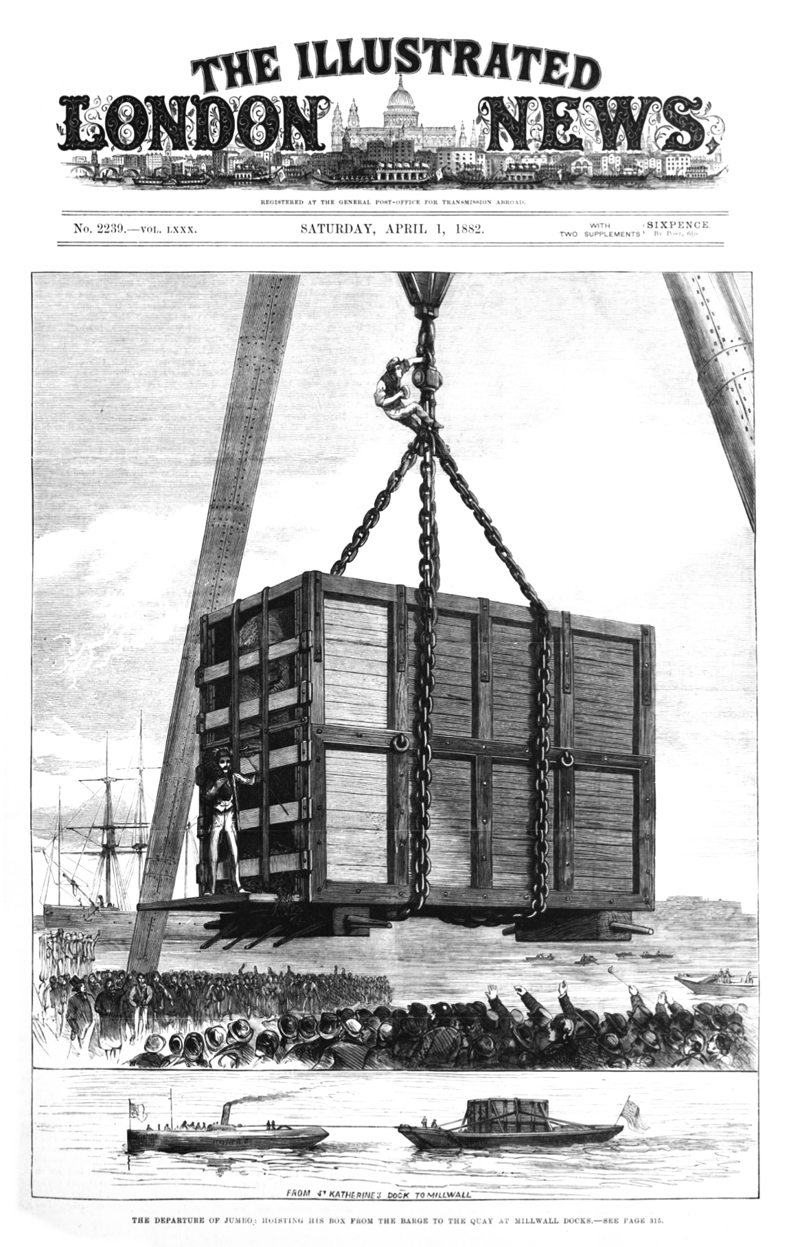 Jumbo is loaded aboard the Assyrian Monarch in the presence of a vast crowd